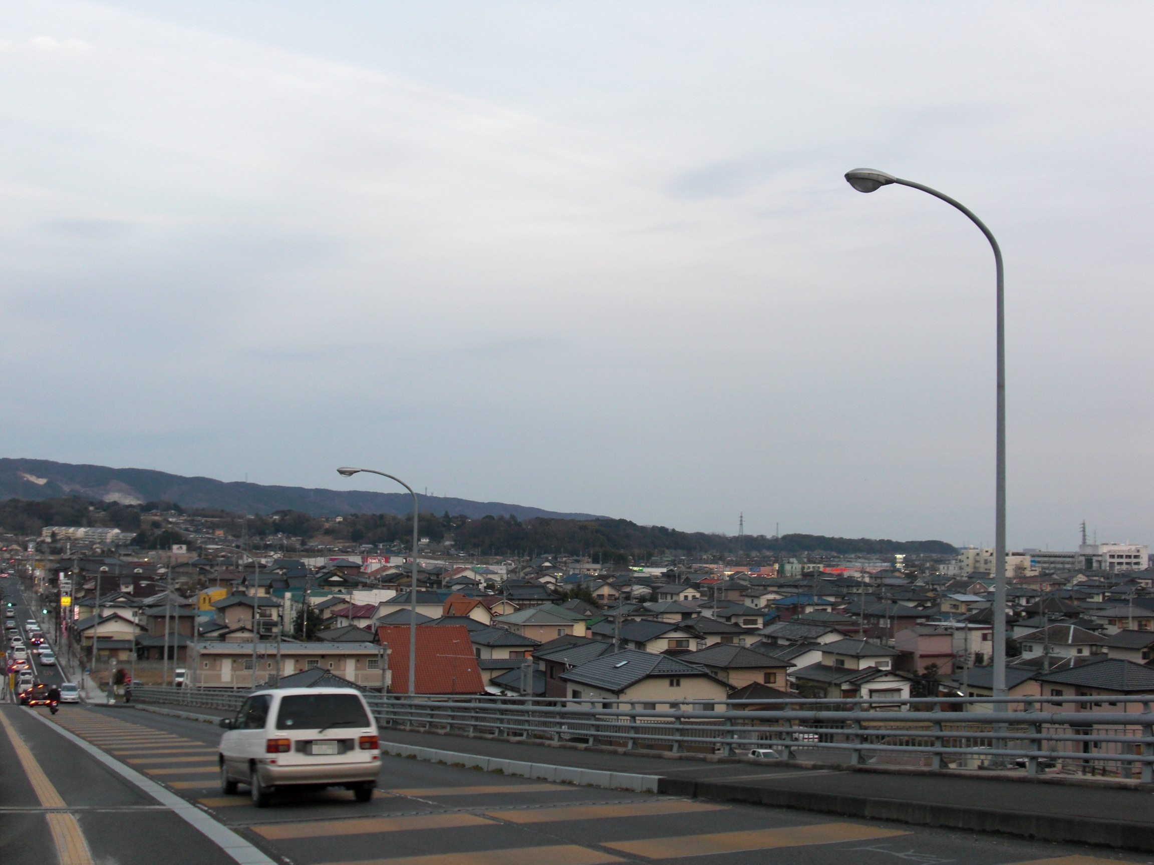 This is a landscape of Central Hitachiota City, Ibaraki, Japan.